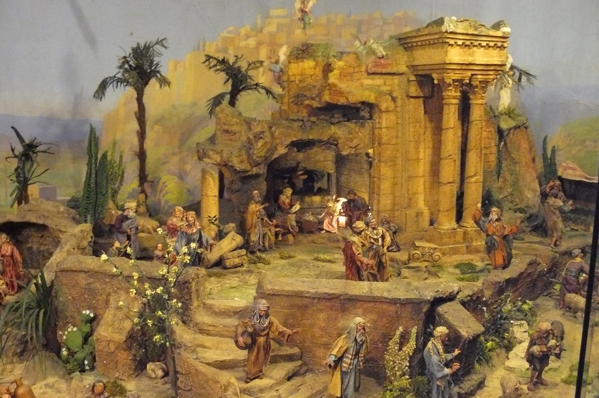 Mechanische Krippe, Altotting.